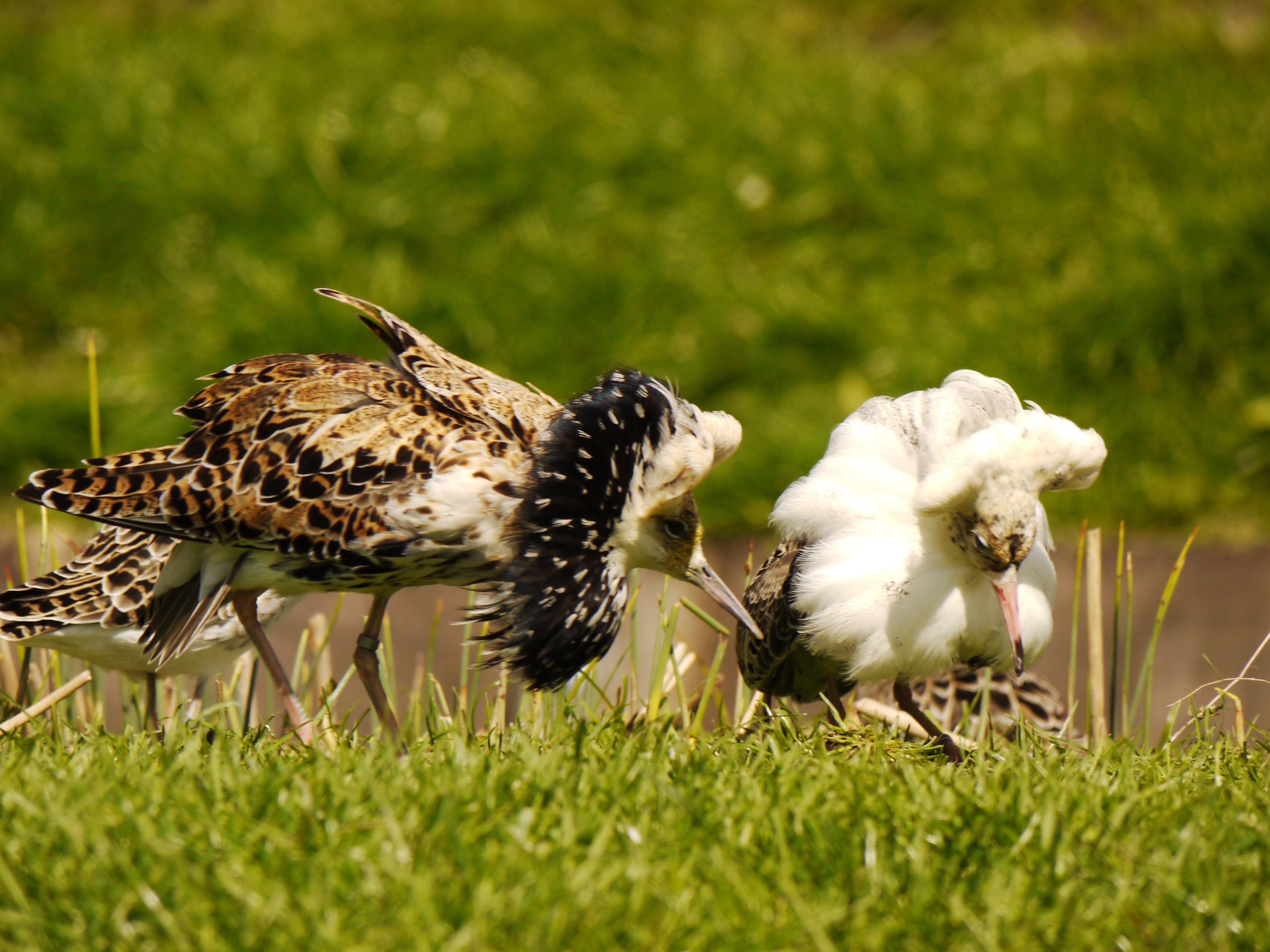 Male ruffs (Philomachus pugnax) in breeding plumage